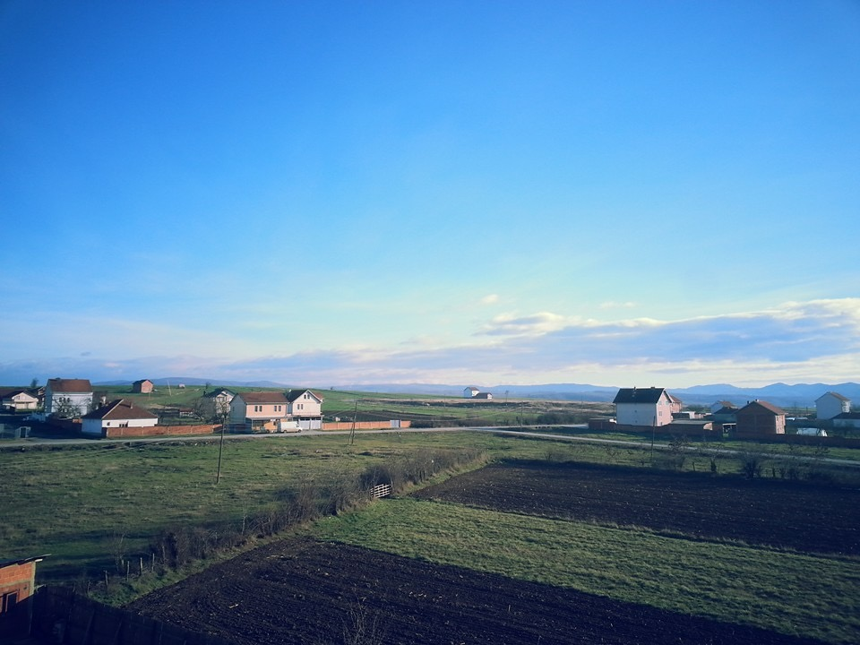 View over the village of Dumosh.